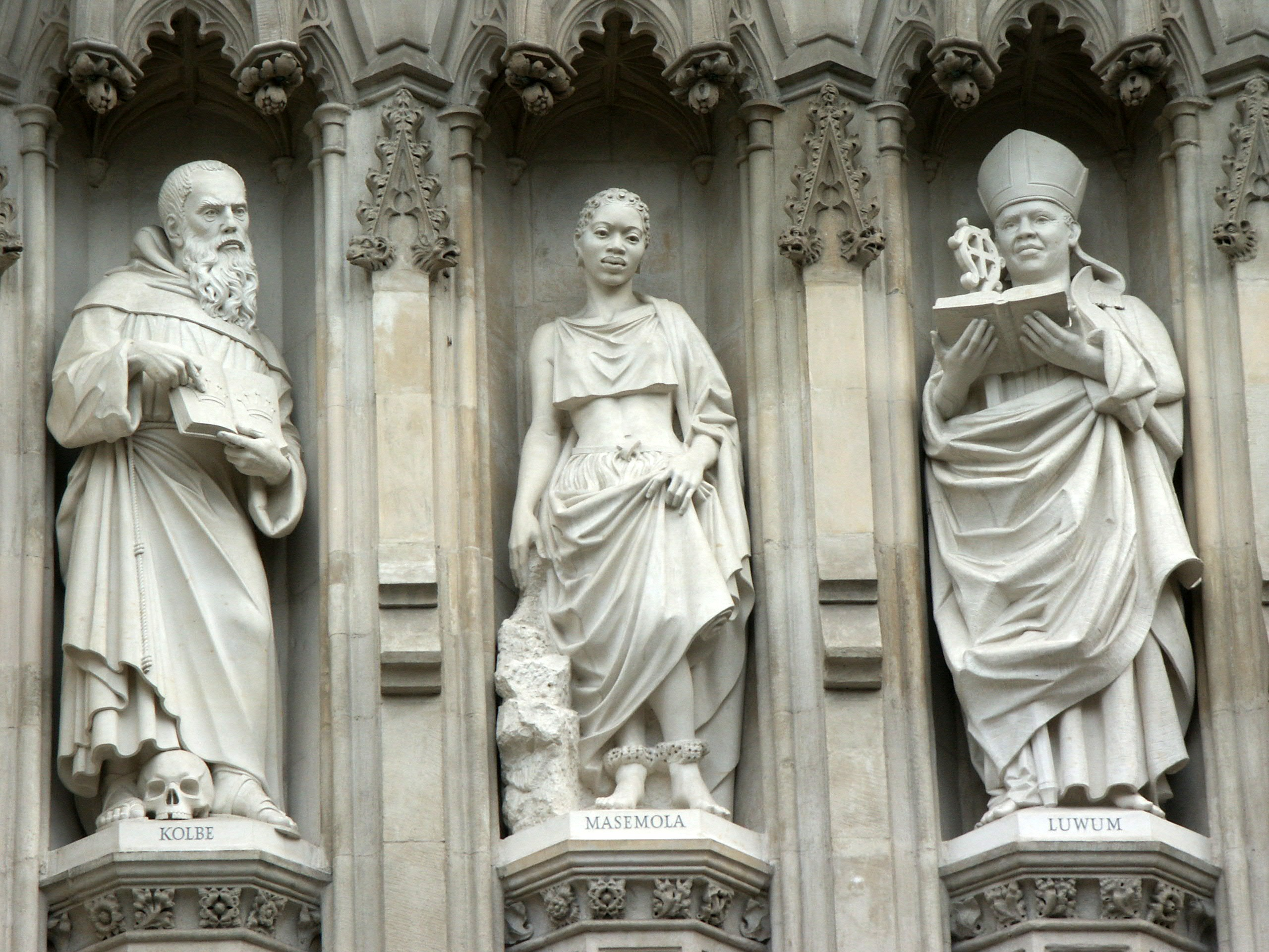 Martyrs on the façade of Westminster Abbey, London. left to right: Maximilian Kolbe, Manche Masemola, and Janani Luwum. See also: List of architectural sculpture in Westminster#Westminster Abbey